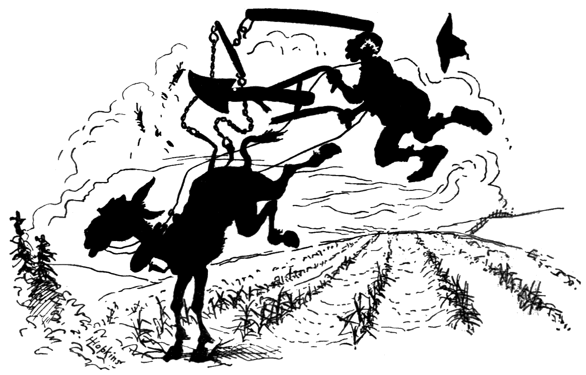 Nebuchadnezzar the mule